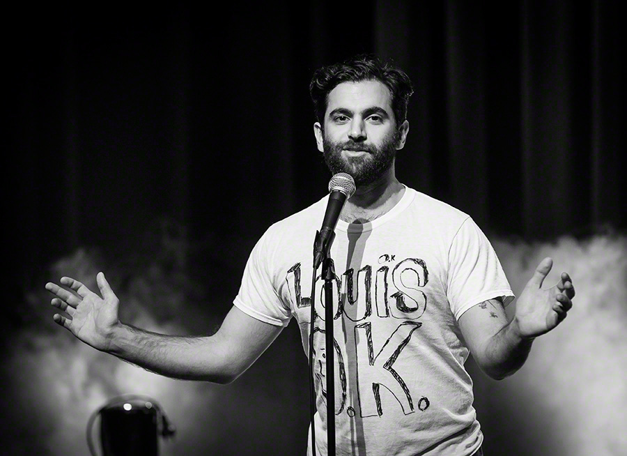 Amir Asgharnejad performing at the Crap Comedy Festival in January 2016. The festival takes place at Parkteatret in Oslo.